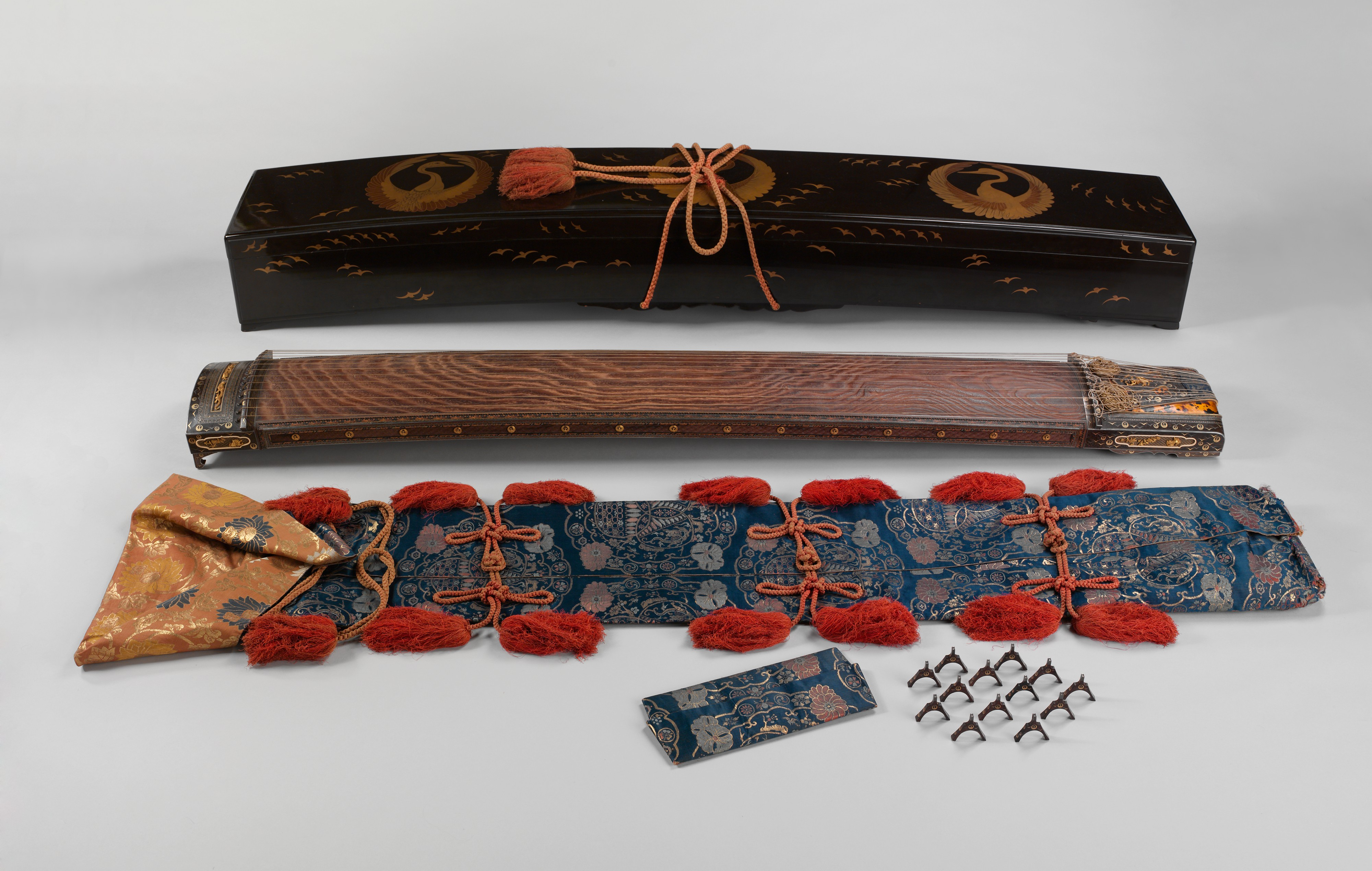 Japanese; Koto; Chordophone-Zither-plucked-long zither